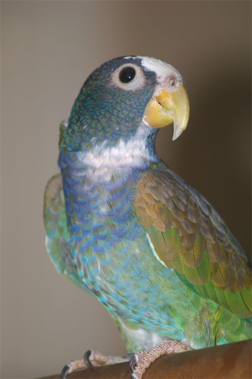 White-crowned Parrot (also known as the White-crowned Pionus). A pet parrot.